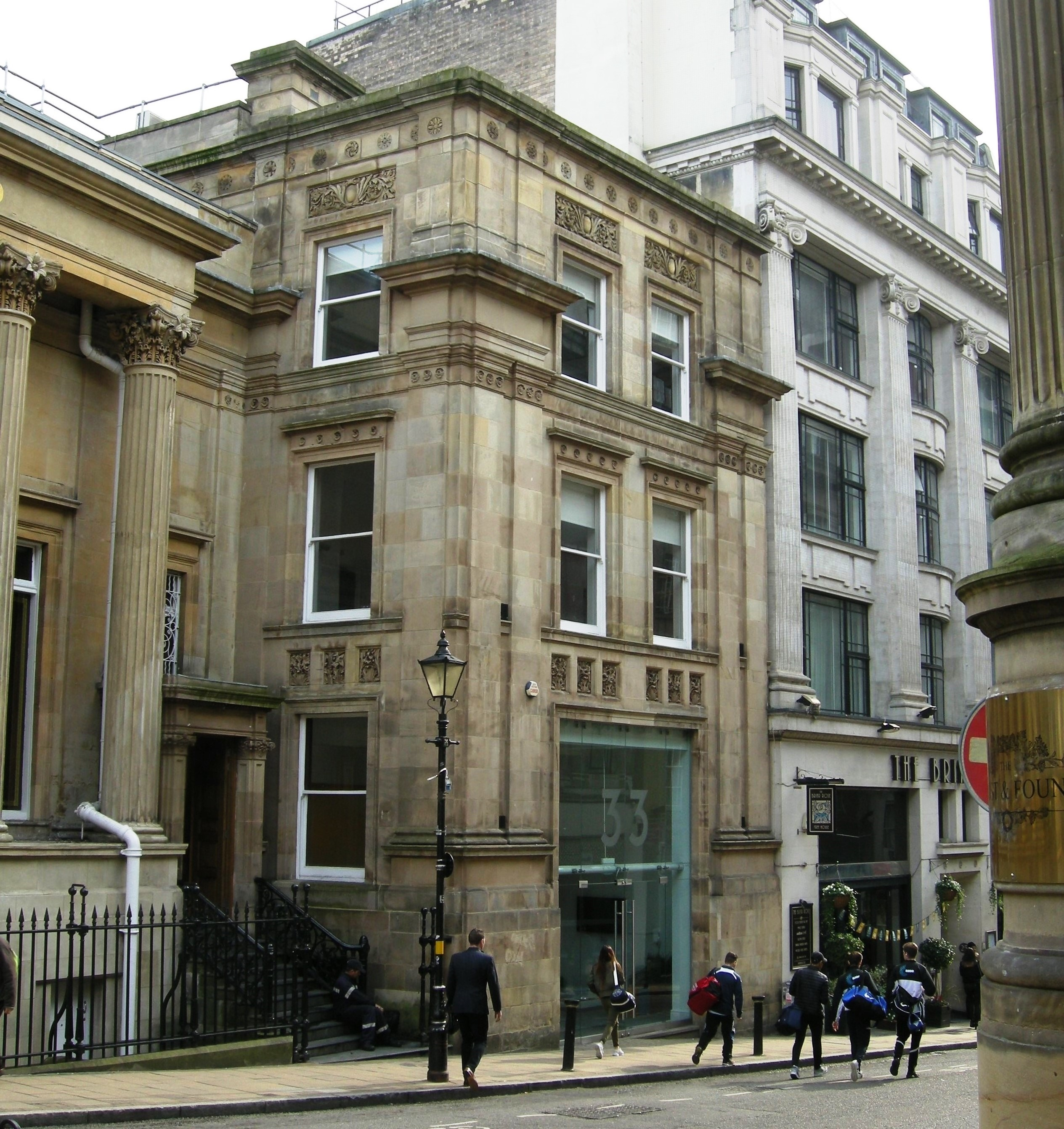 Extension to the former Birmingham Banking Company building, Bennetts Hill, Birmingham. Built 1881–4; designed by Harris, Martin and Harris.